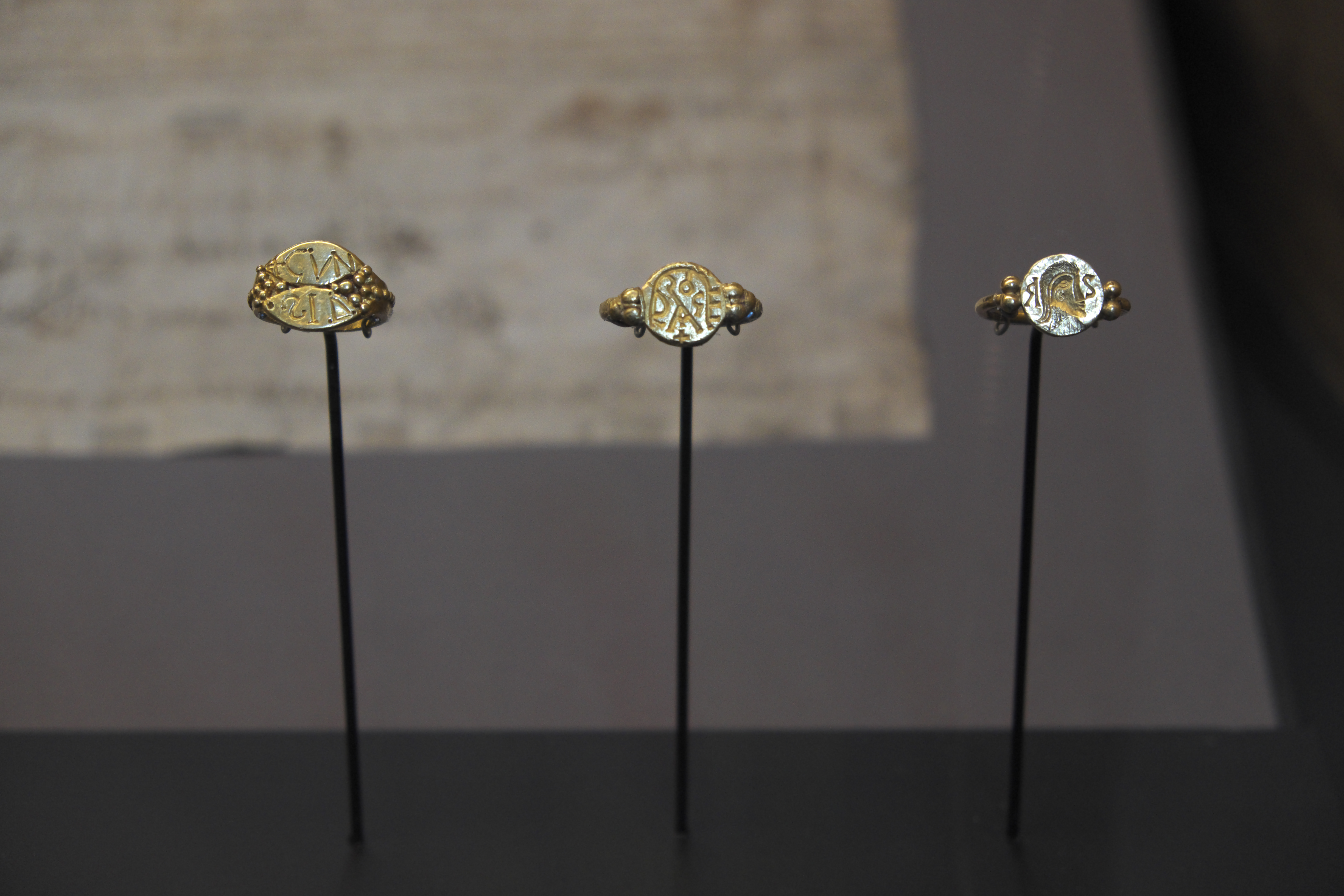 Gold signet rings of Ingund, Radegund, and Sigebert III